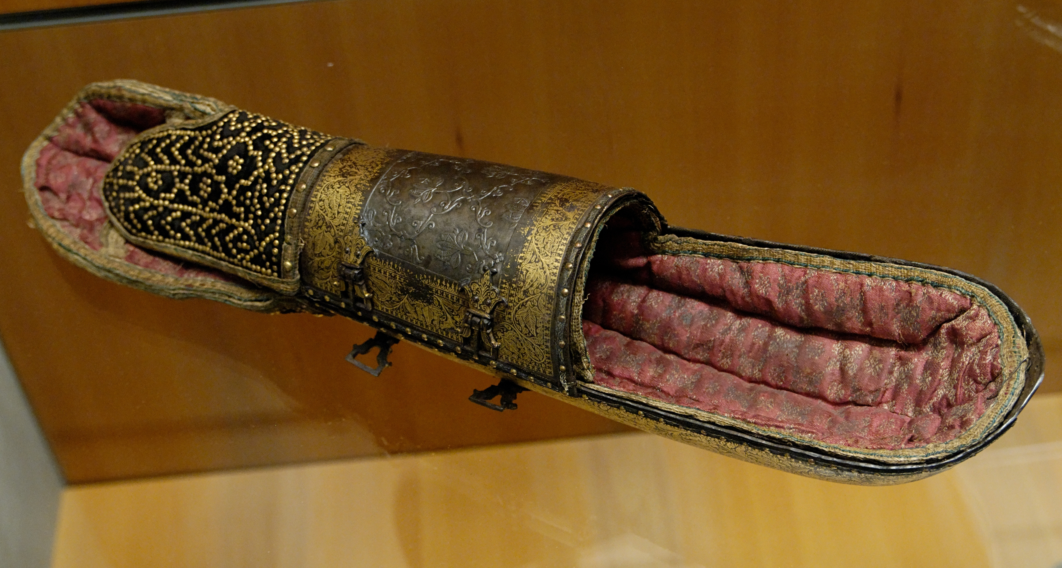 Arm protection. Engraved and leaf-gilted iron or steel, 17th–18 centuries. From India or Iran.